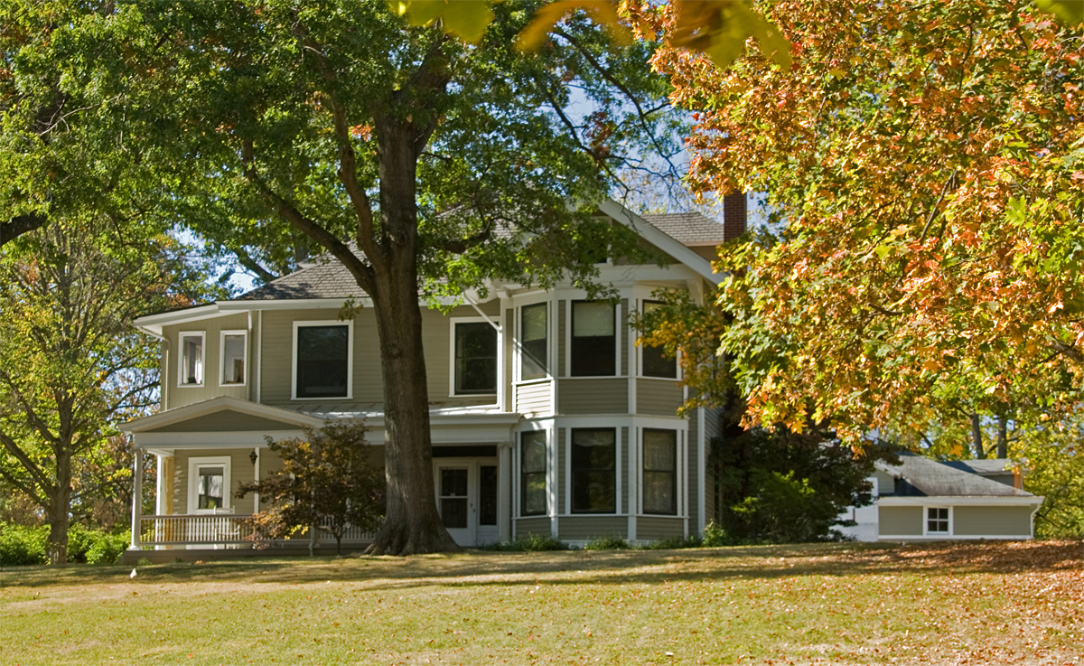 Elmer Hess house in Wyoming, OH. Photo by Greg Hume.